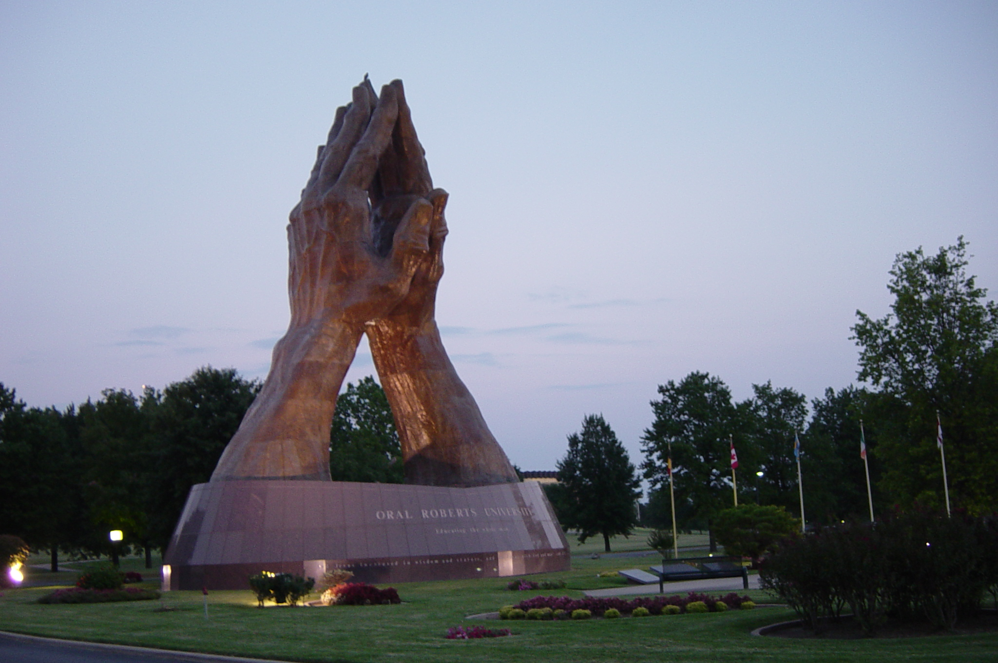 Photograph of the bronze sculpture Praying Hands at the main entrance to Oral Roberts Universityen in Tulsaen, Oklahomaen.